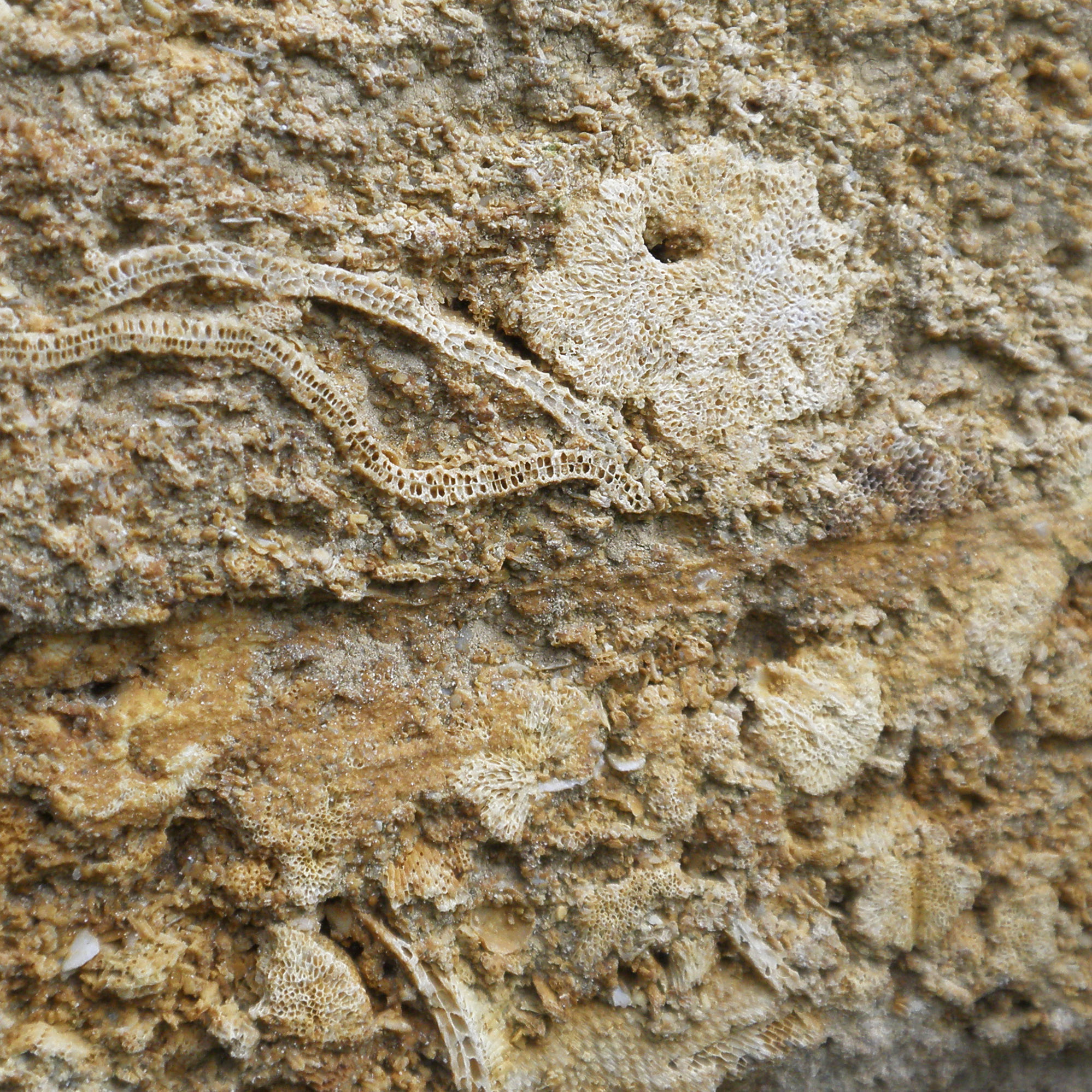 Quarried block of Coralline Crag, containing bryozoan fossils, in a wall of St Peter's parish church, Chillesford, Suffolk, England. St Peter's Chillesford is one of only two churches in England that is built from the local Suffolk coralline crag. The other is Wantisden. The quarry is immediately behind the church. It gives the building a warm honey colour, distinguishing it from all its neighbours.